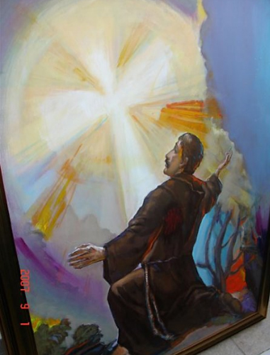 fra Lovro Milanović